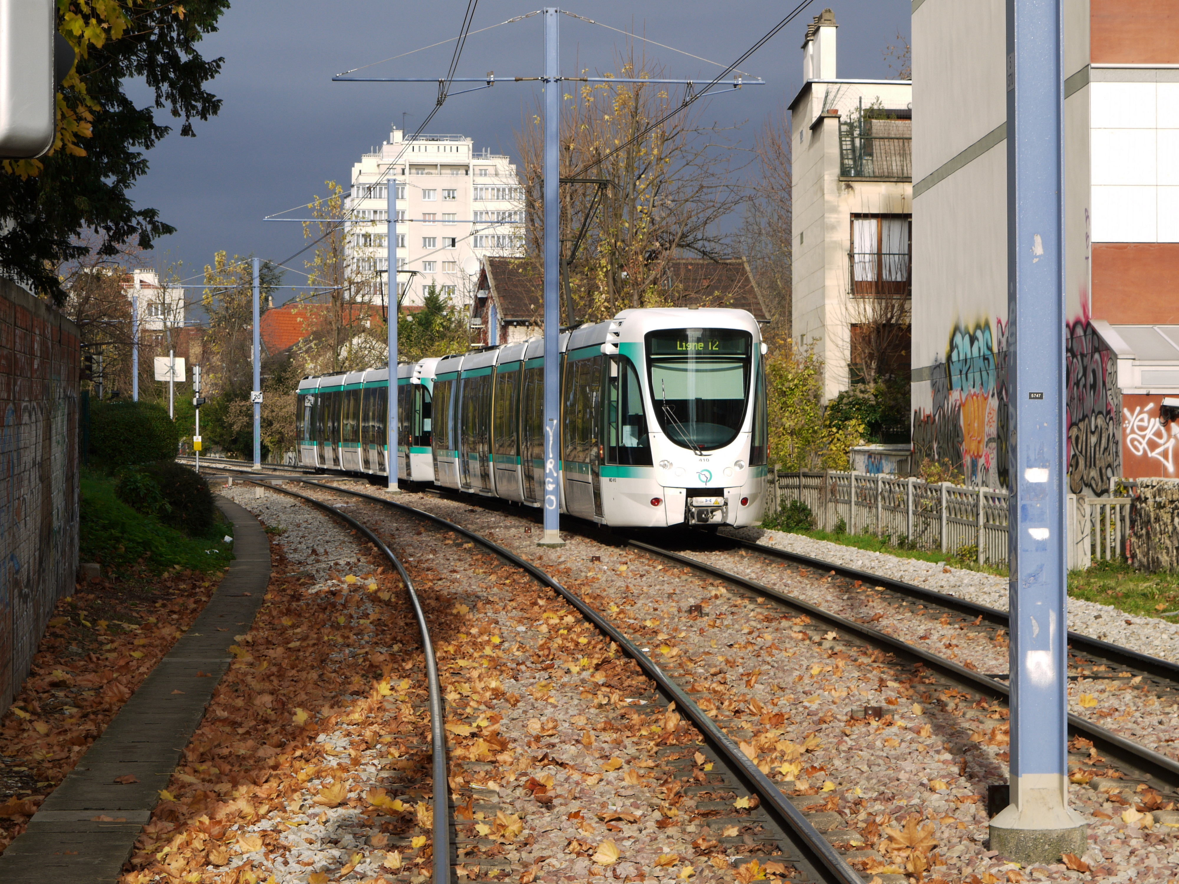 Tram line T2, between the stations Milons et Parc de Saint-Cloud, Saint-Cloud, France (Région parisienne).